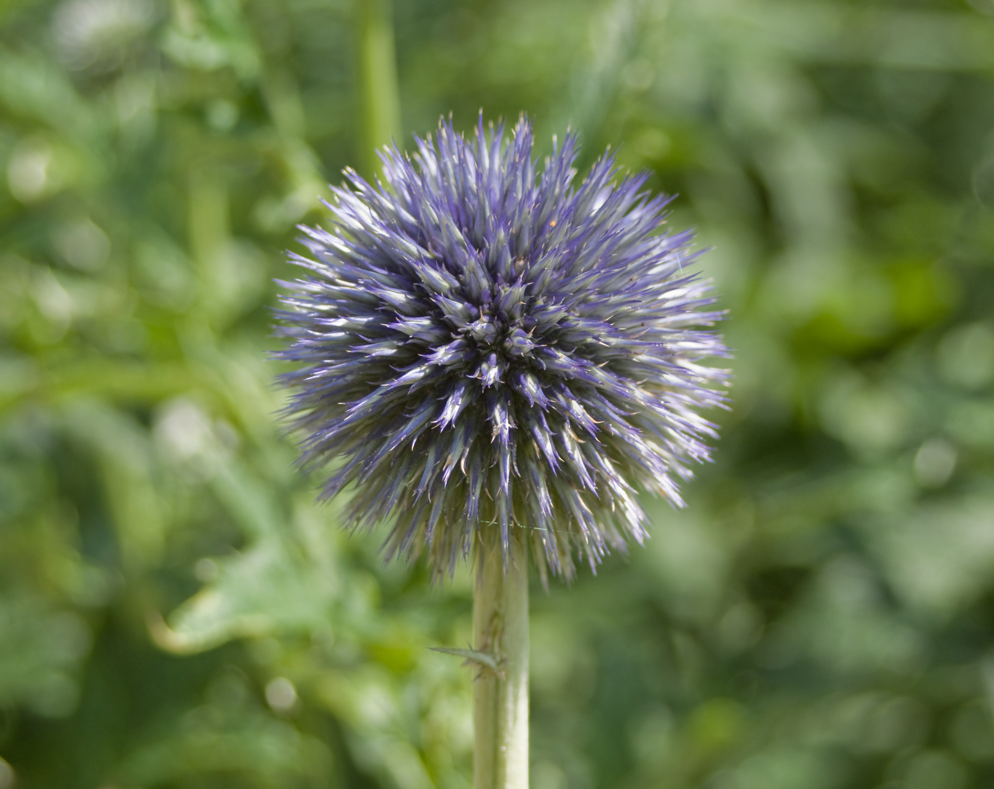 Echinops bannaticus, photographed in Vivary Park, Taunton, Somerset, UK. The flowers of the Blue Globe-Thistle are not yet opened.